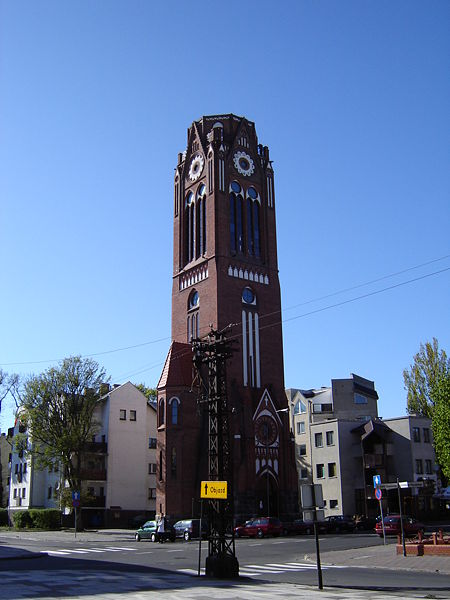 Świnoujście, Poland